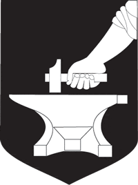 Coat of arms of Mõisaküla linn, Estonia